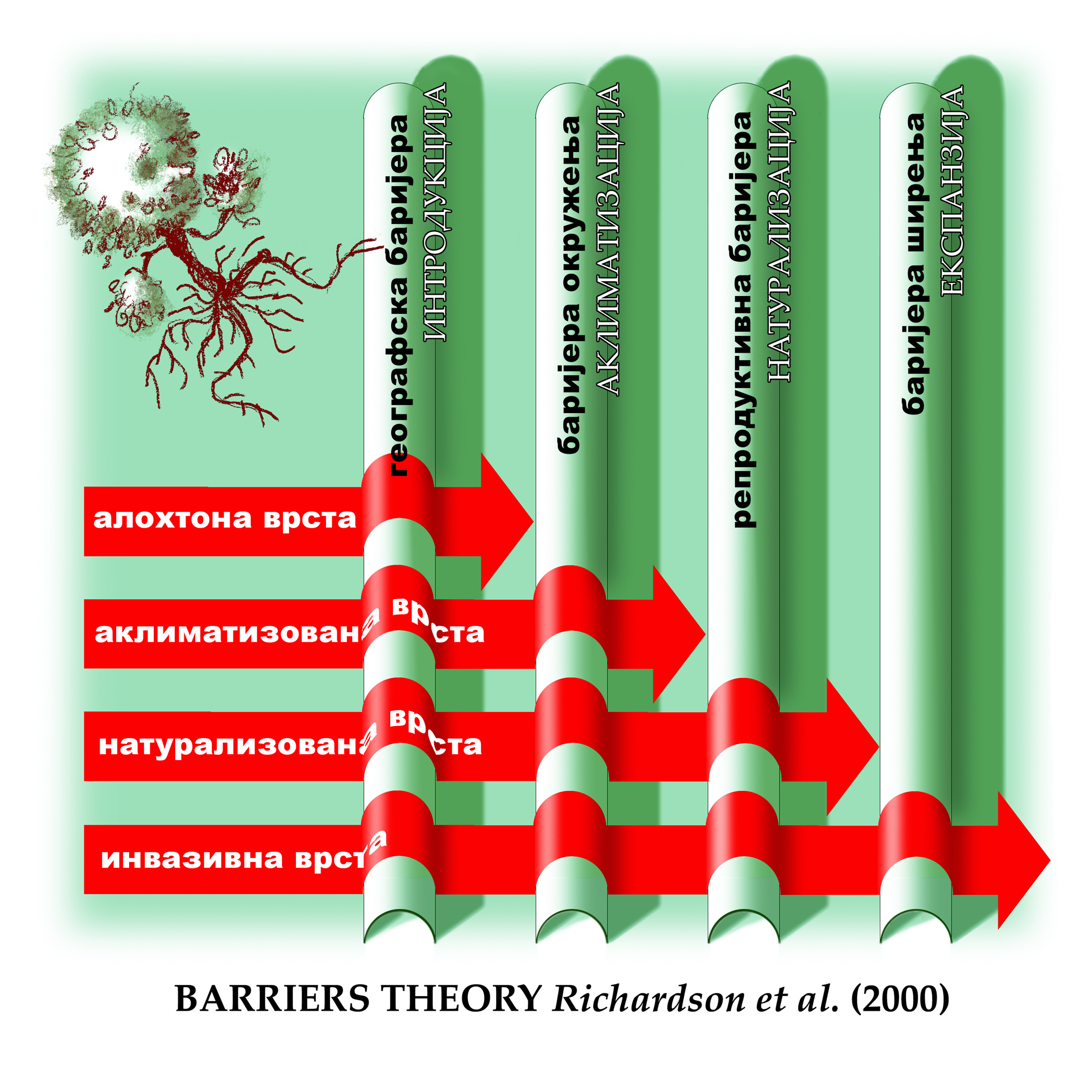 Barrieres theory of plant invasion (in Serbian)